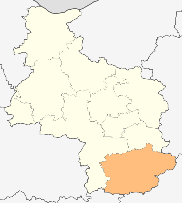 Map of Elena municipality, Veliko Tarnovo Province